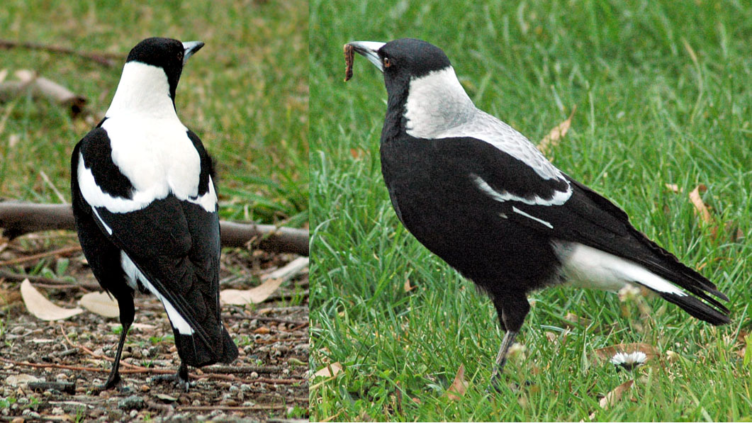 Pair of Tasmanian Magpies, Gymnorhina tibicen hypoleuca. The male (on the left) has a pure white nape and back, and the female (on the right) has a silver cast to the white feathers of her nape and back.